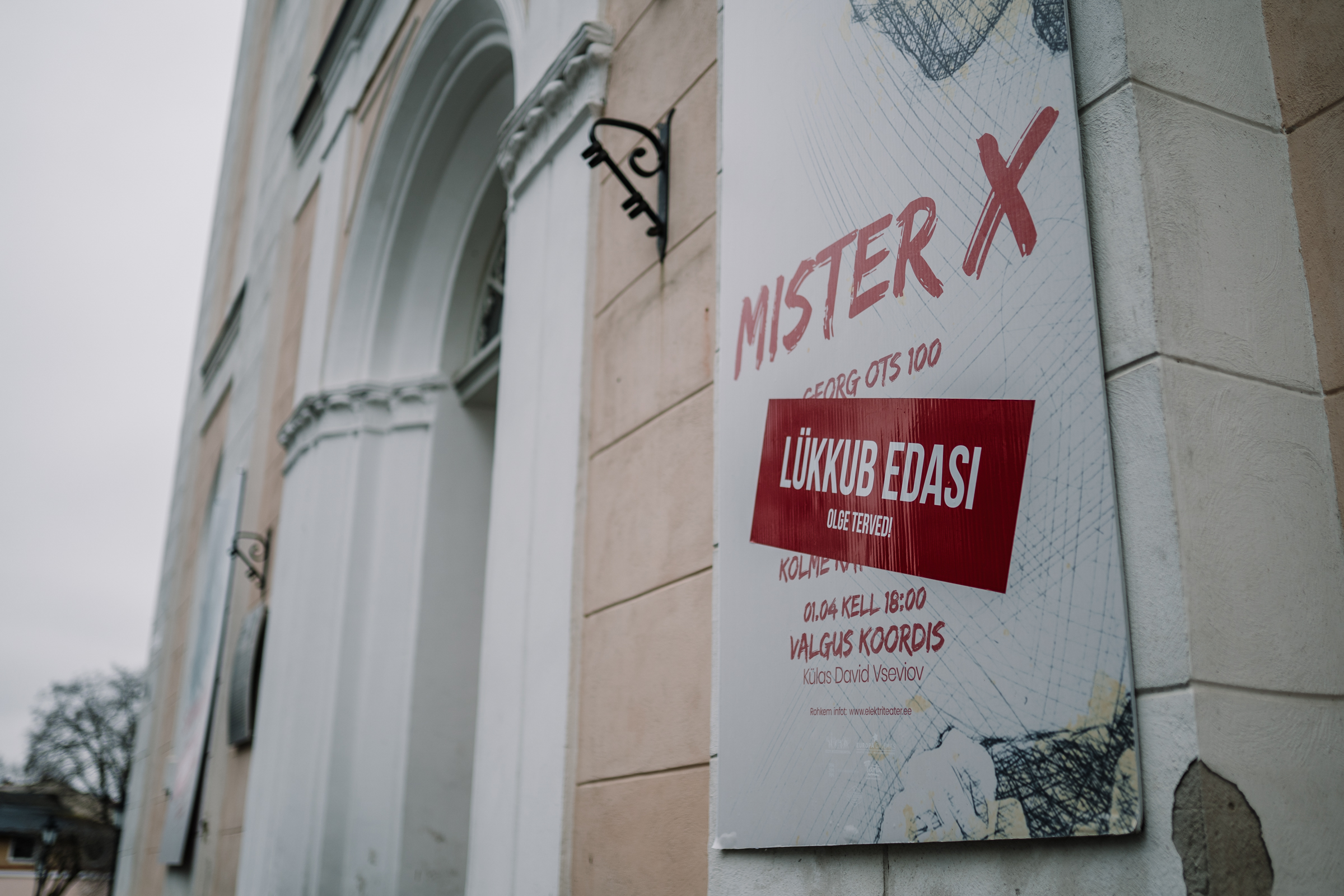 Local cinema has postponed the screenings during COVID-19 pandemic.